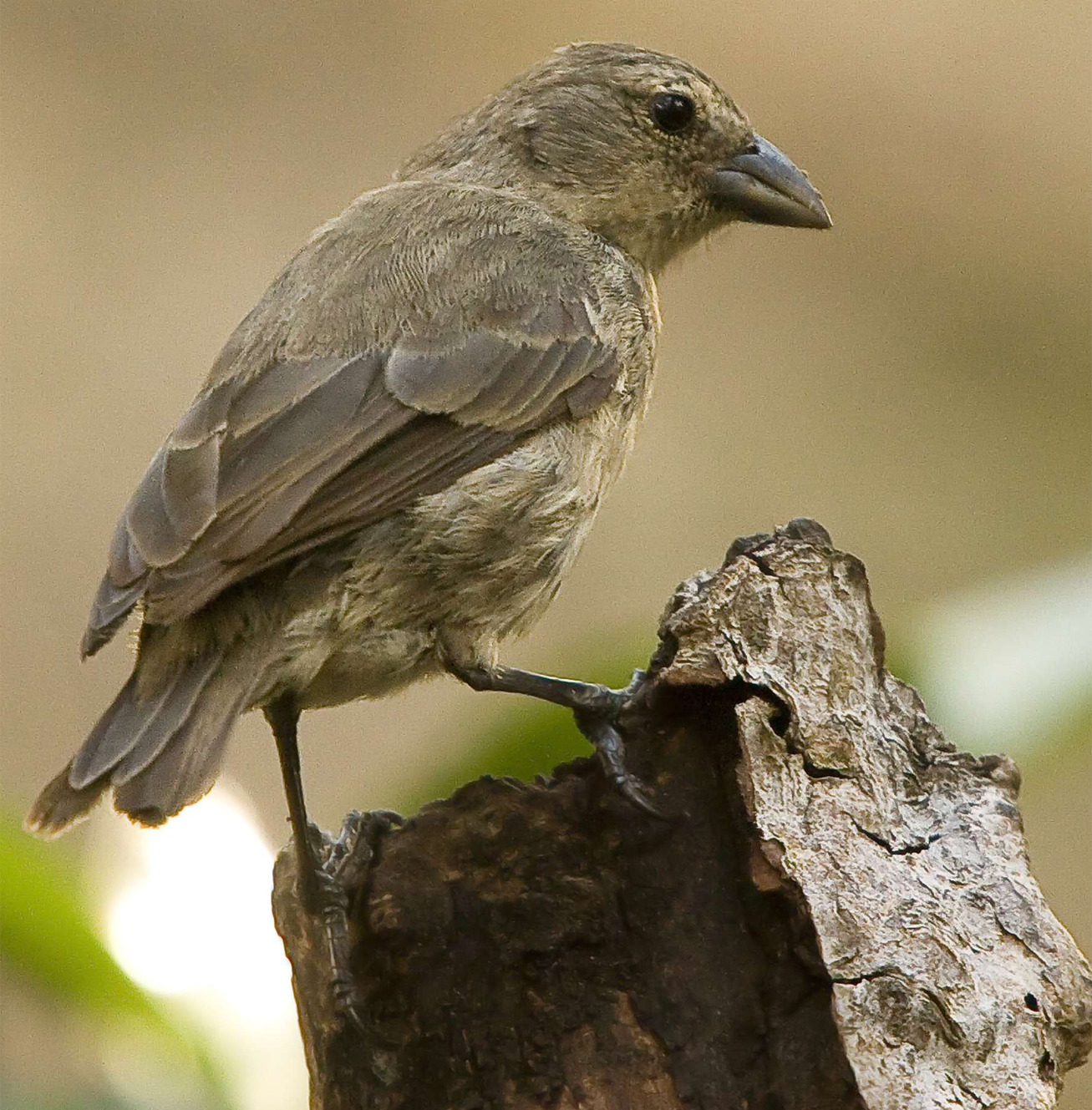 Mangrove finch (Camarhynchus heliobates)